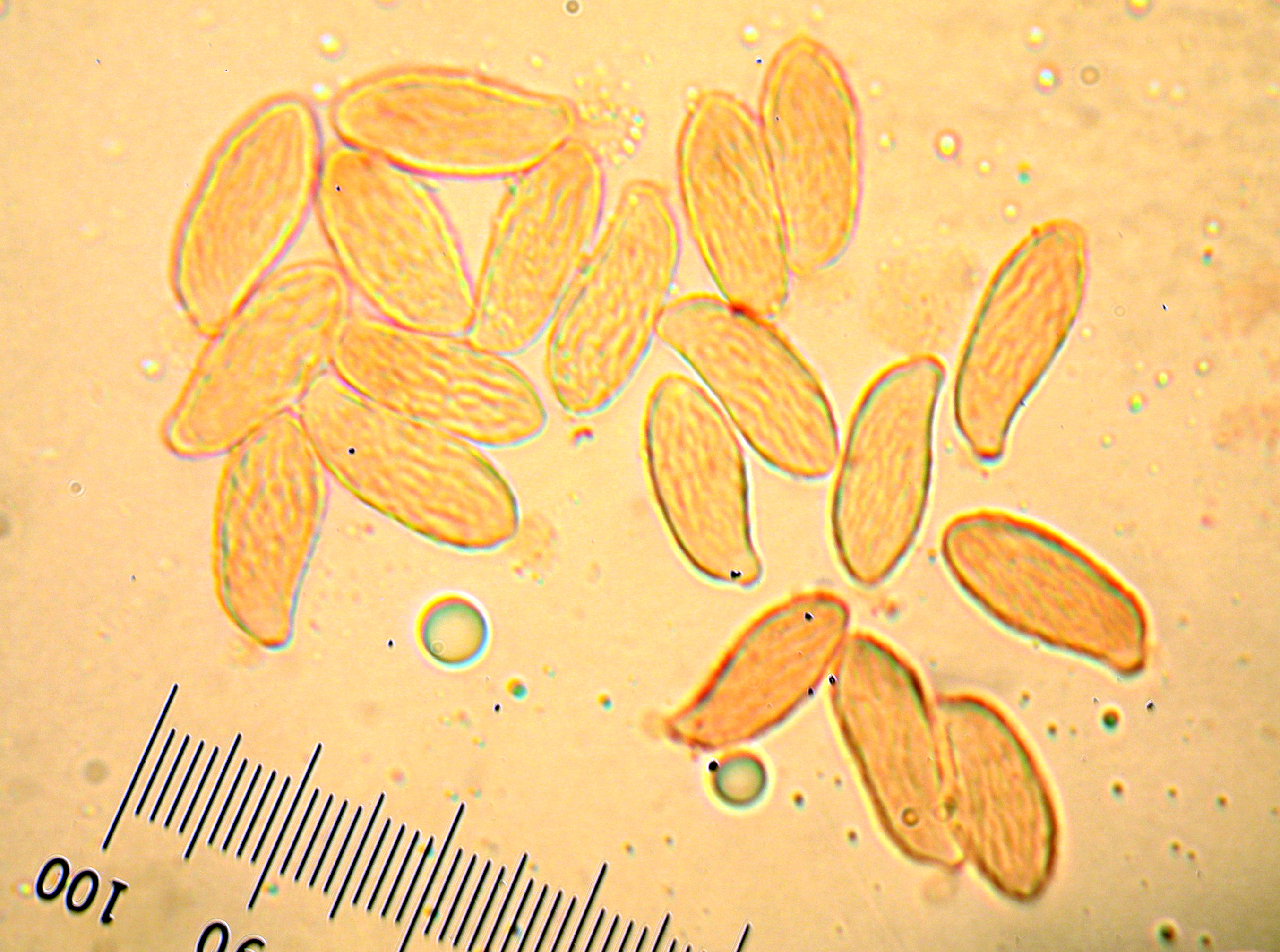 Spores of the coral fungus Ramaria botrytis (Pers.) Ricken.